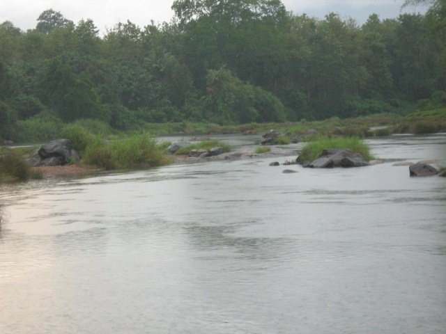 A view of Punnapuzha in nilambur from where it goes to dissolve in karimpuzha